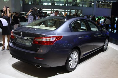 Renault Latitude